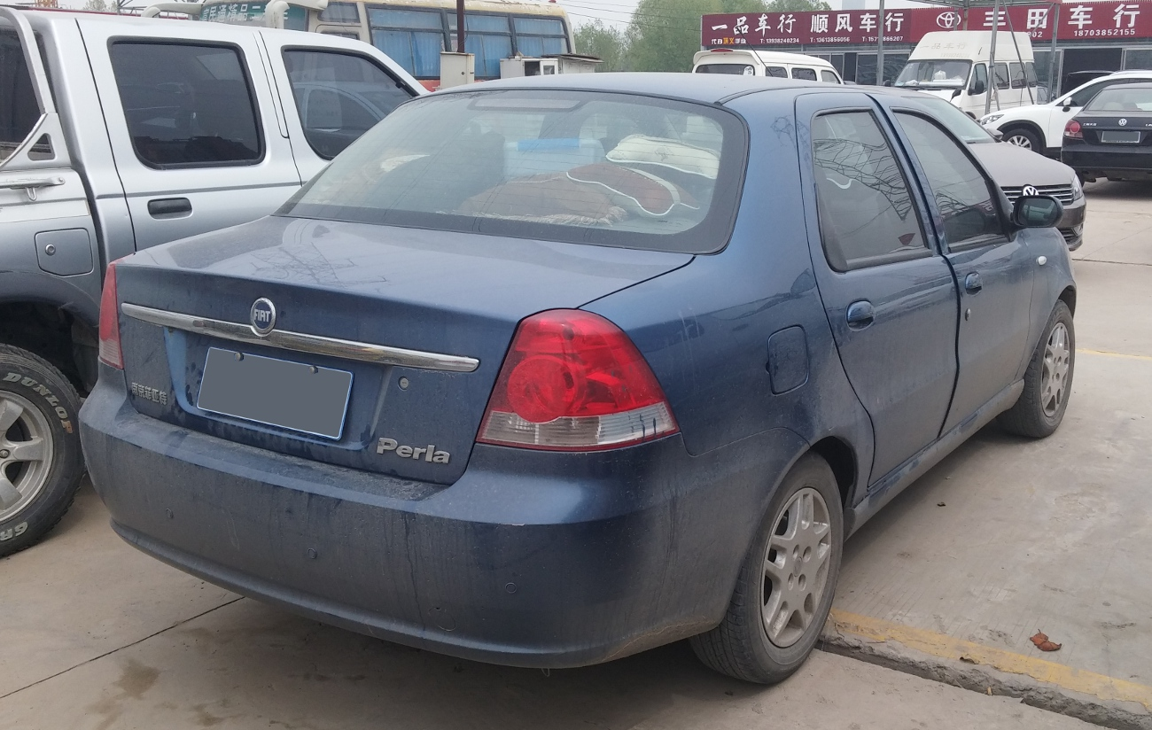 Fiat Perla photographed in Zhengzhou, Henan province, China.